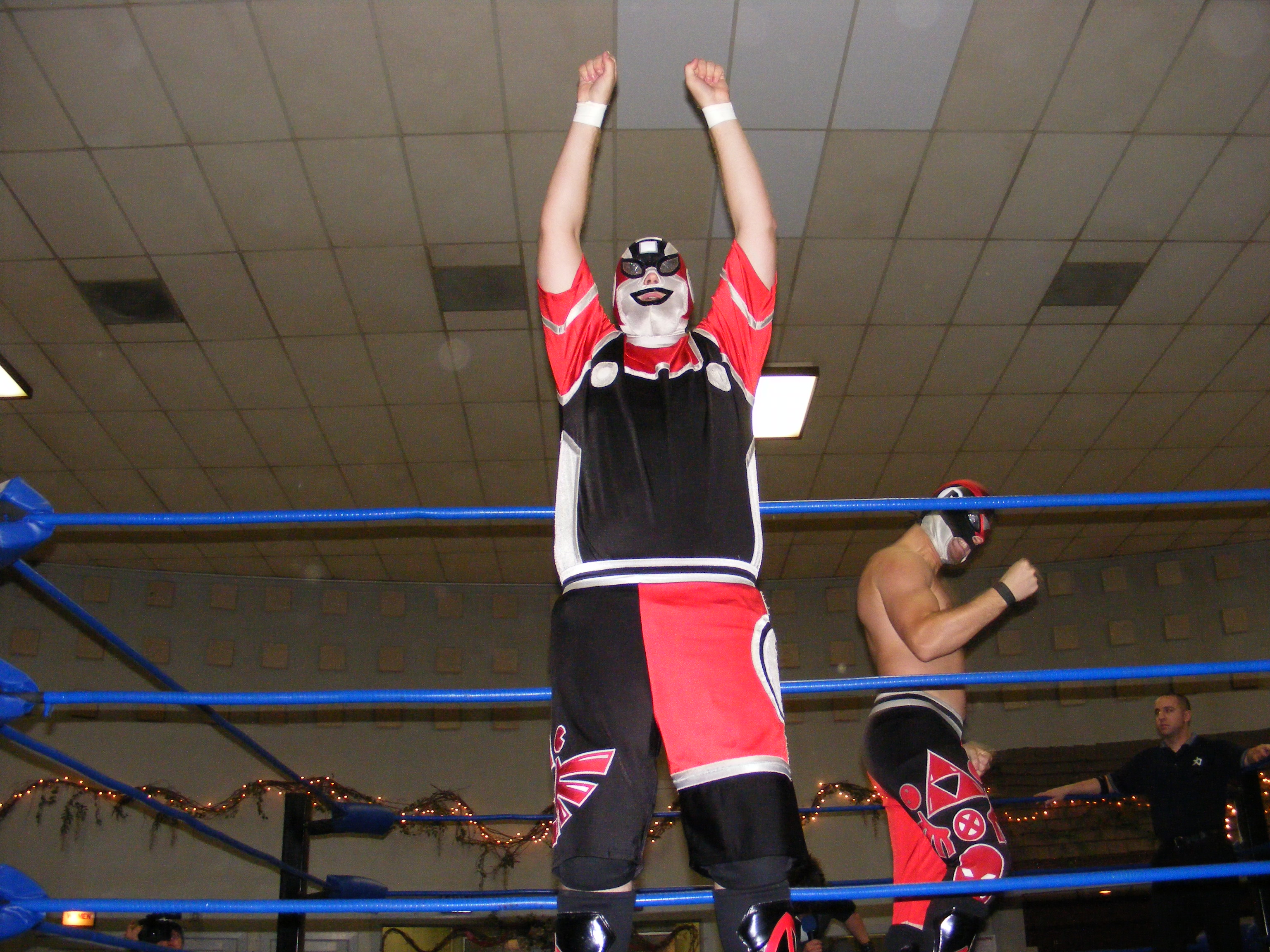 Professional wrestlers Player Uno and Player Dos at a Chikara show